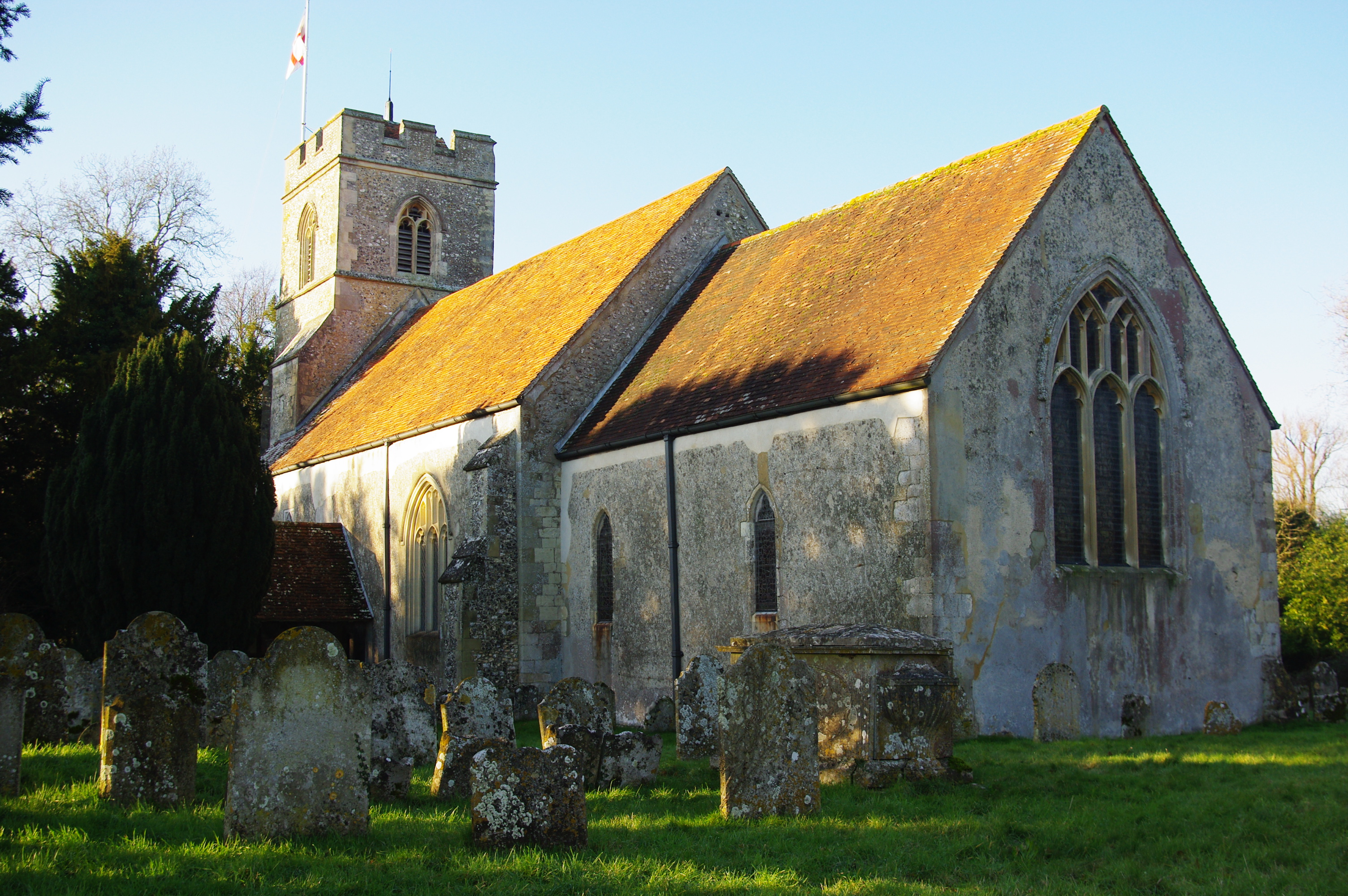 Holy Trinity, Wonston